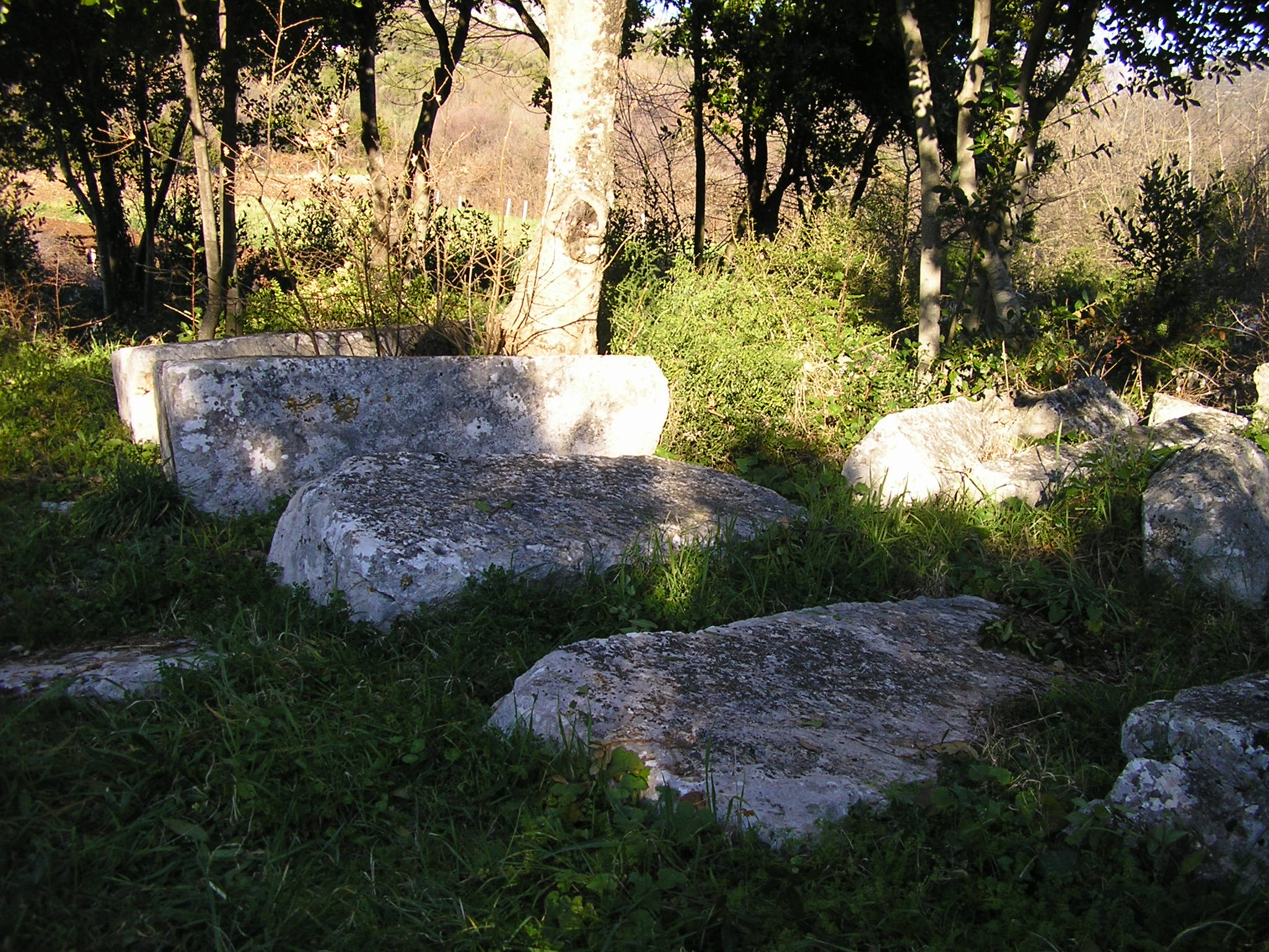 Stećci in Vranjevo Selo